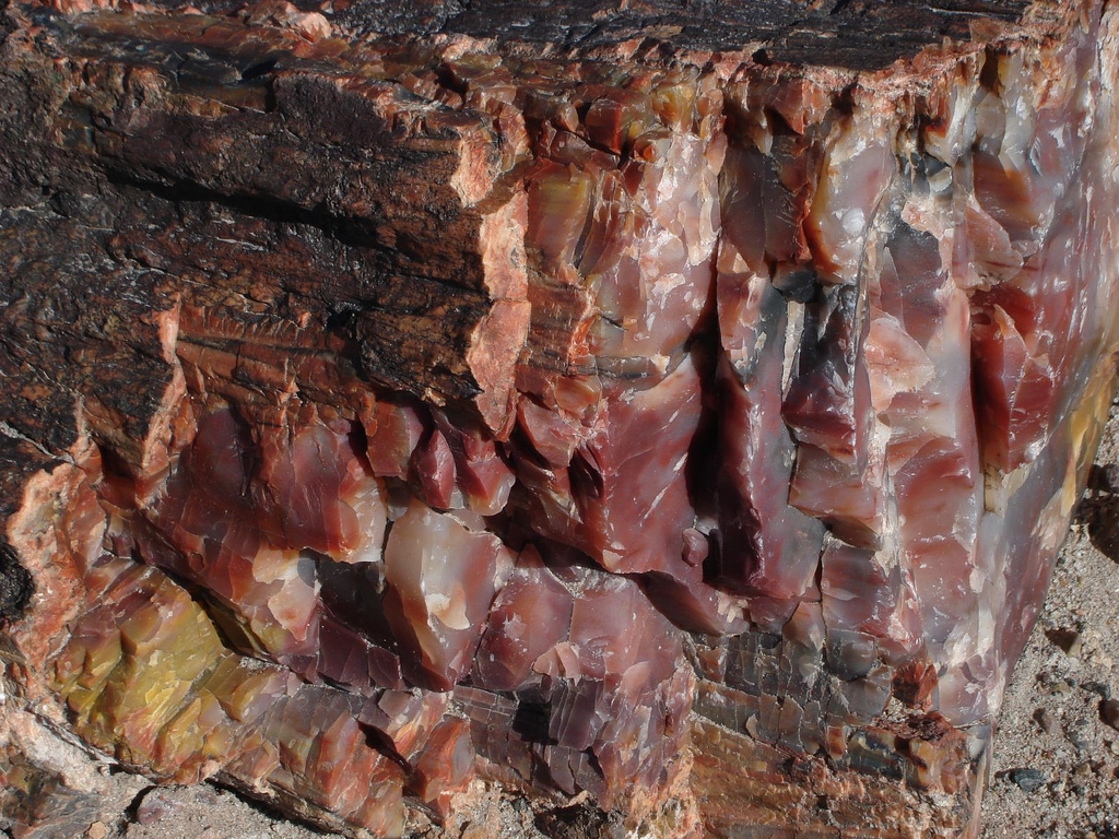 Closeup of petrified wood at Petrified Forest National Park